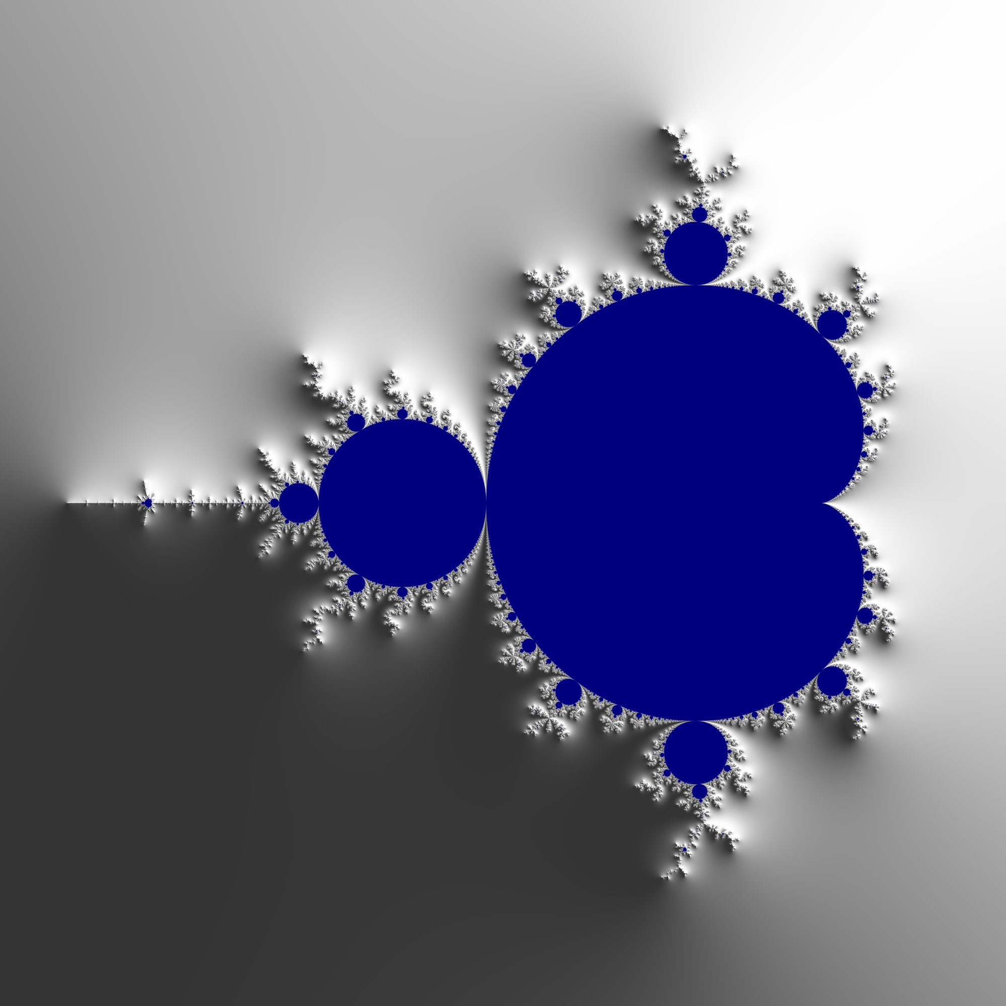 Mandelbrot set - Normal mapping